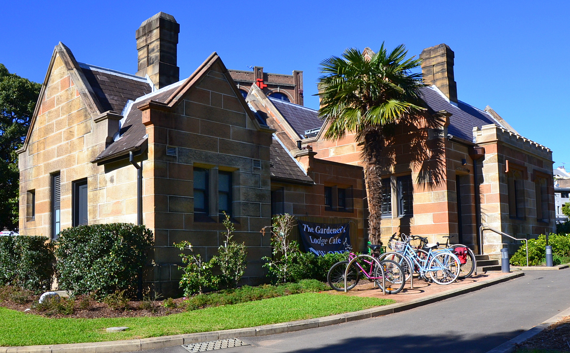 Gardeners Lodge, Victoria Park, Sydney